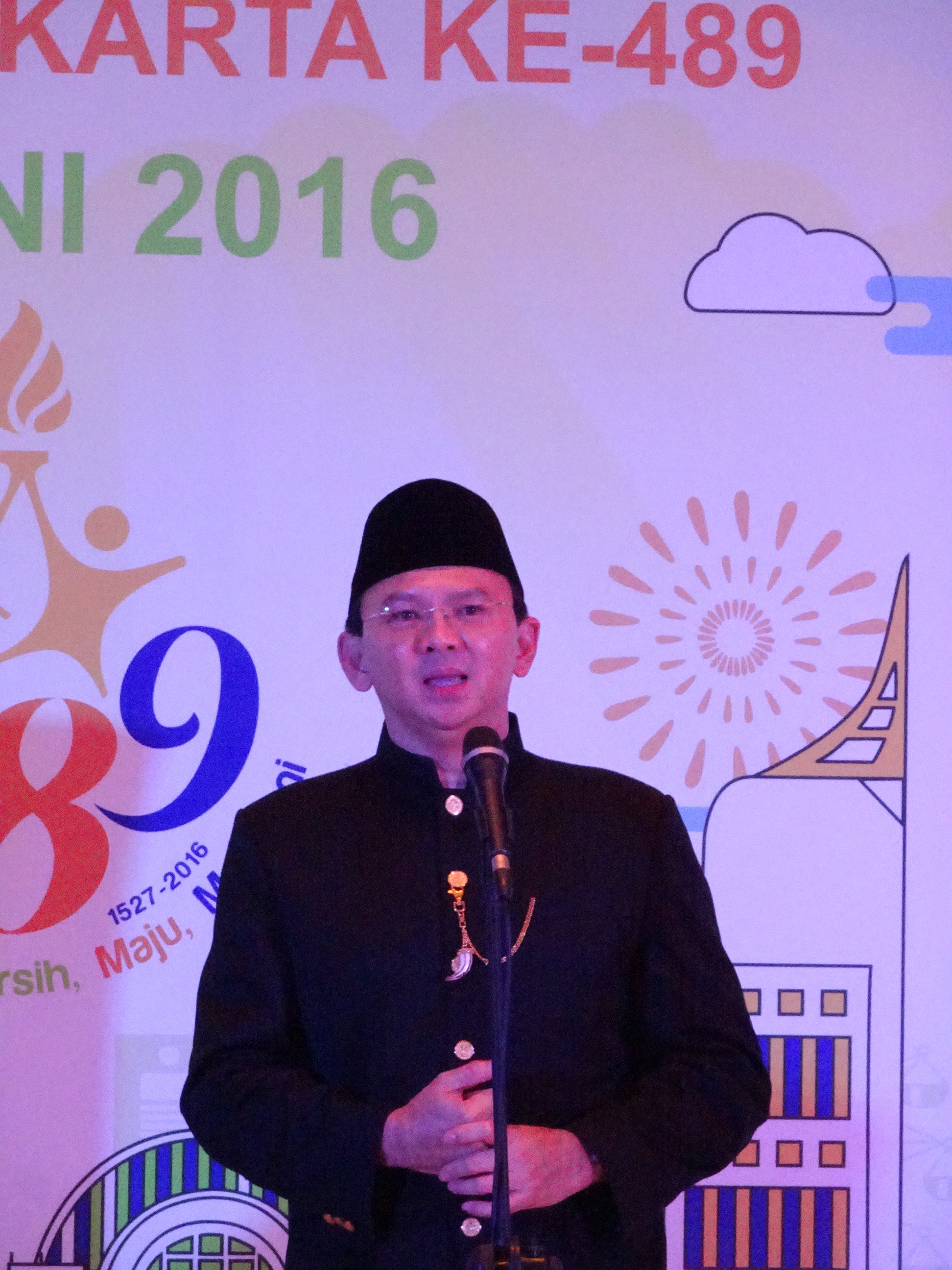 Basuki Tjahaja Purnama delivers a speech in Jakarta City Hall